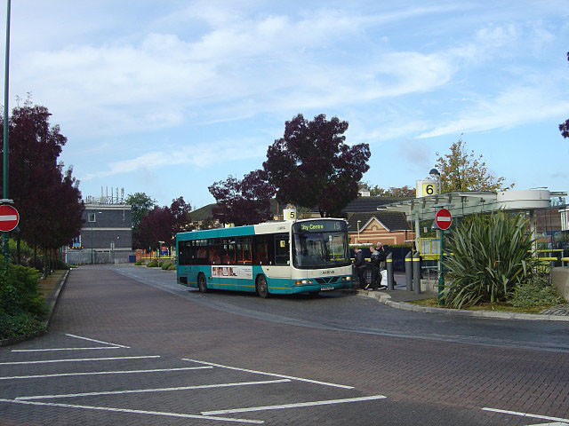 Huyton Bus Station Conveniently close to the shopping centre and within easy reach of the railway station too.